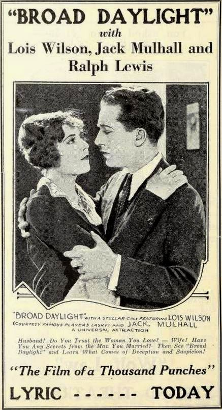 Sample advertisement for the American crime film Broad Daylight (1922) with Lois Wilson and Jack Mulhall, on page 32 of the October 21, 1922 Universal Weekly.